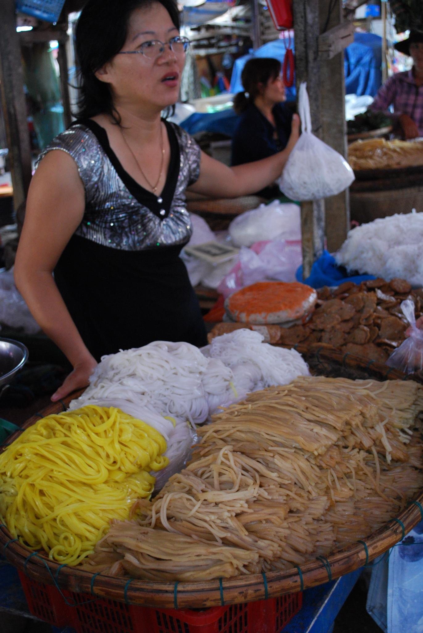 Cao Lau, Mi Quang, Pho noodle stall